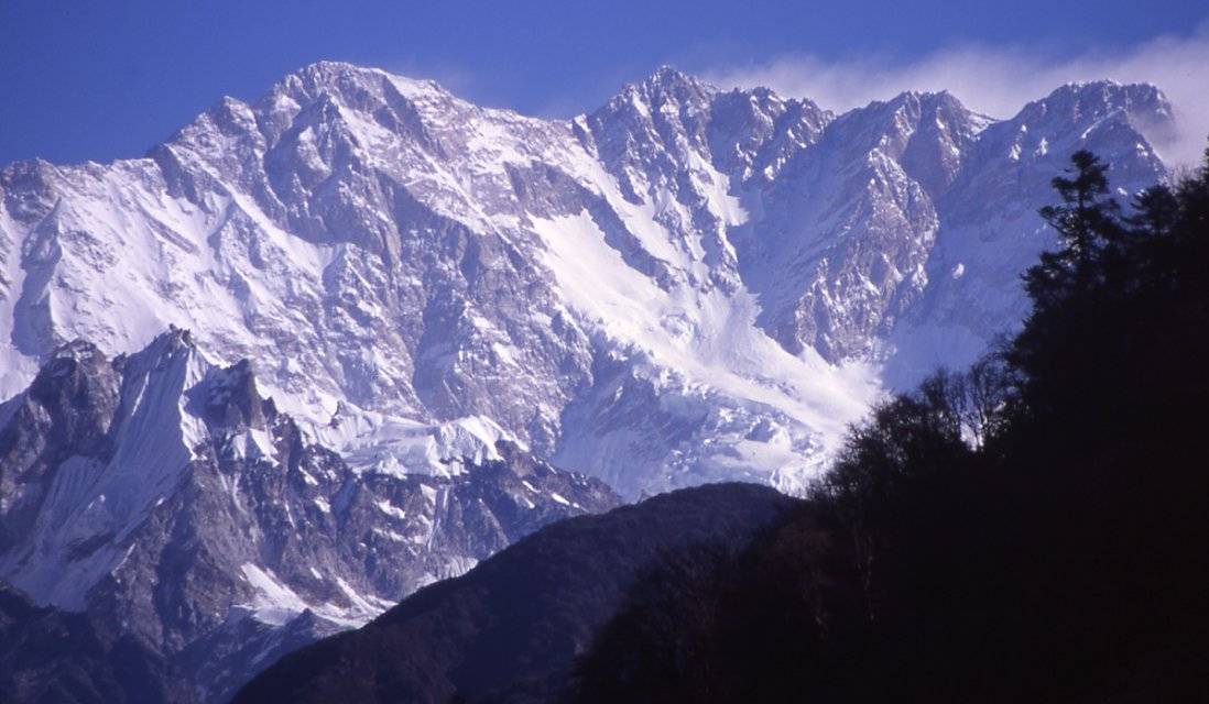 Kachenjunga south face from Nepal